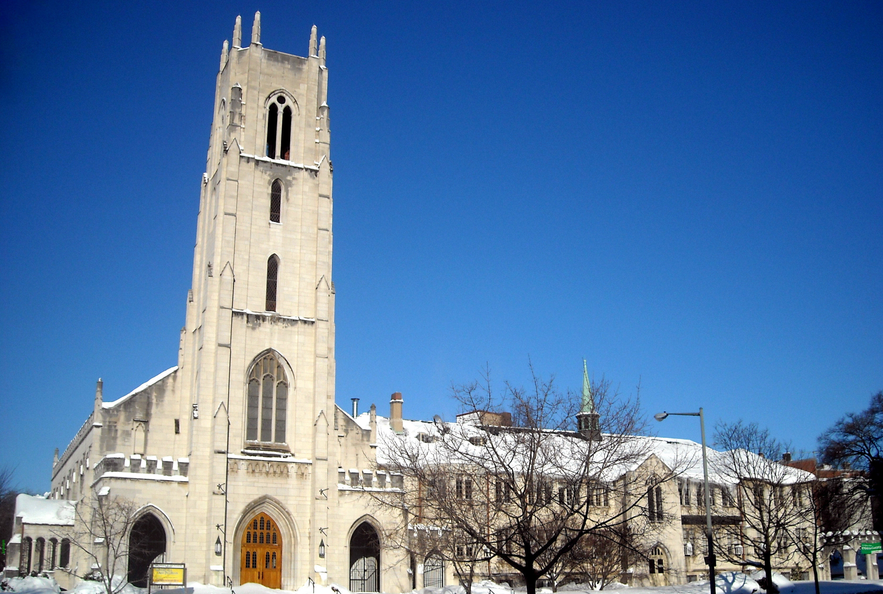 The Church of the Pilgrims, located at 2201 P Street, N.W., in the Dupont Circle neighborhood of Washington, D.C., following the Second North American blizzard of 2010.